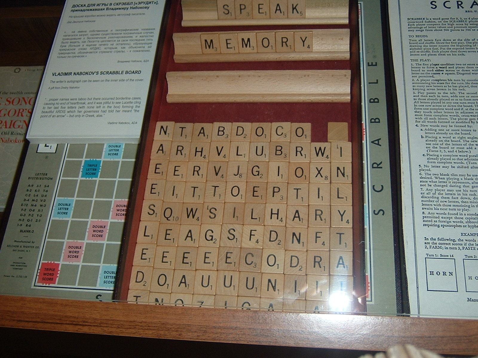 Scrabble board beloning to Vladimir Nabokov Colection of Nabokov House